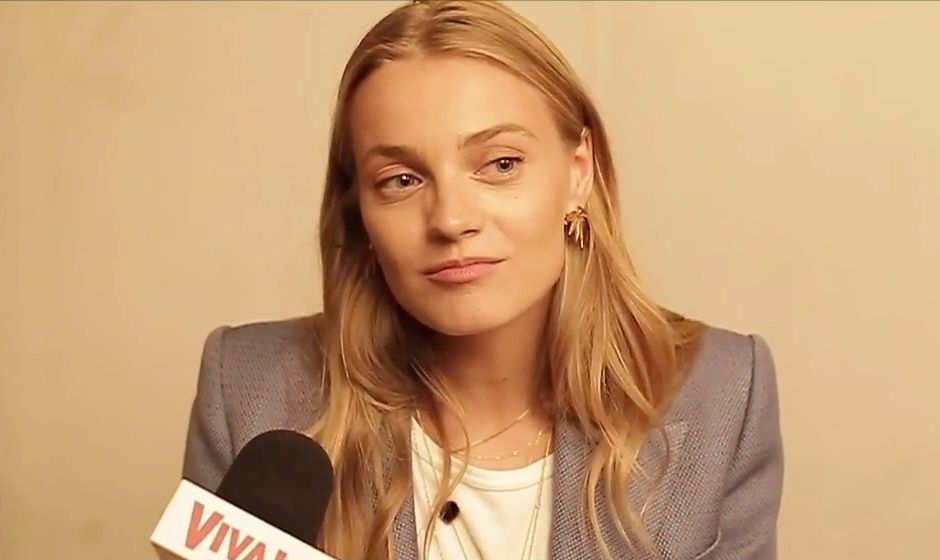 "Anna Jagodzińska hid the fact that she was a model while in school...why?" at 2:13